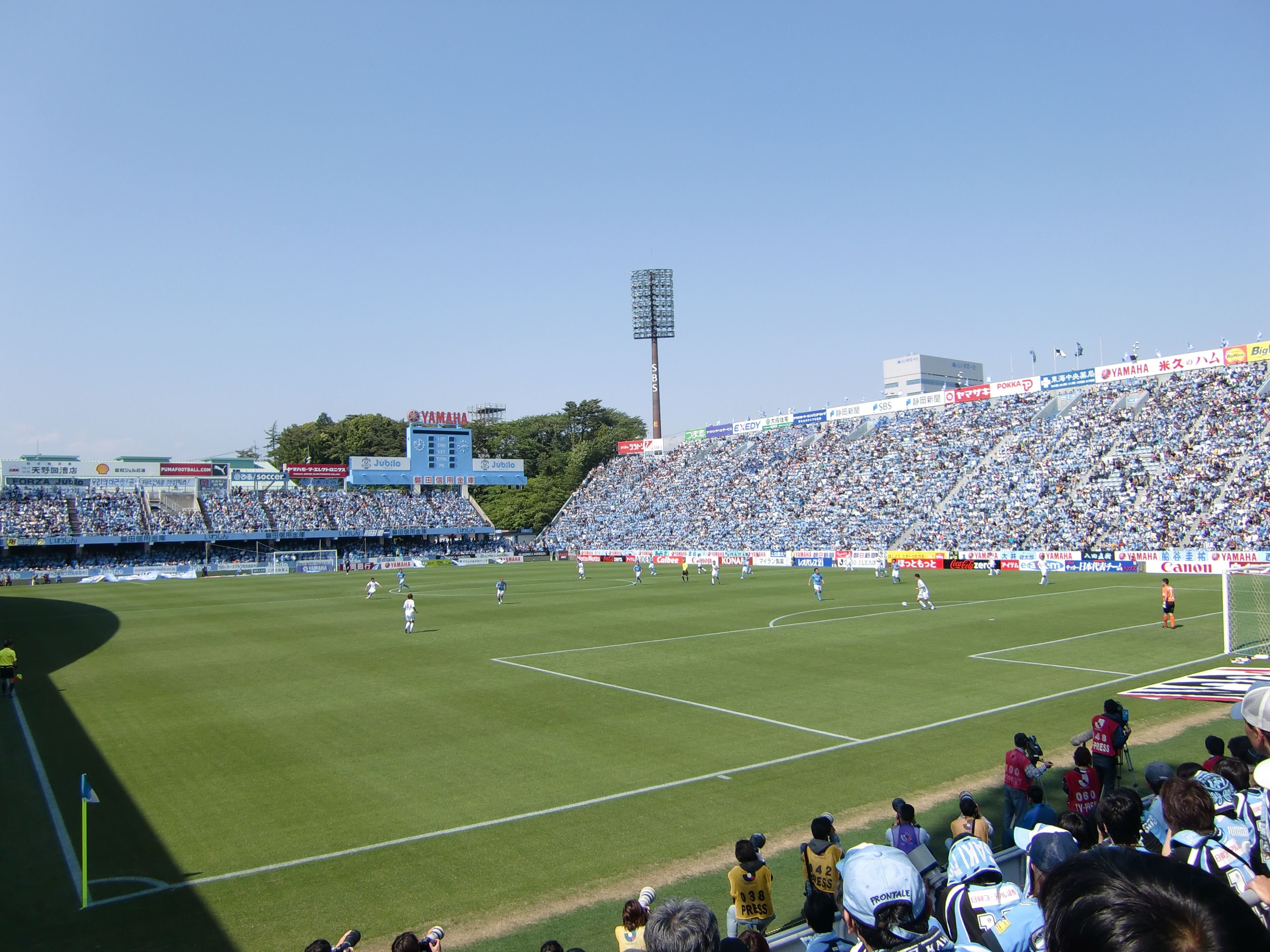 yamaha stadium. Iwata-shi,Shizuoka-ken,Japan